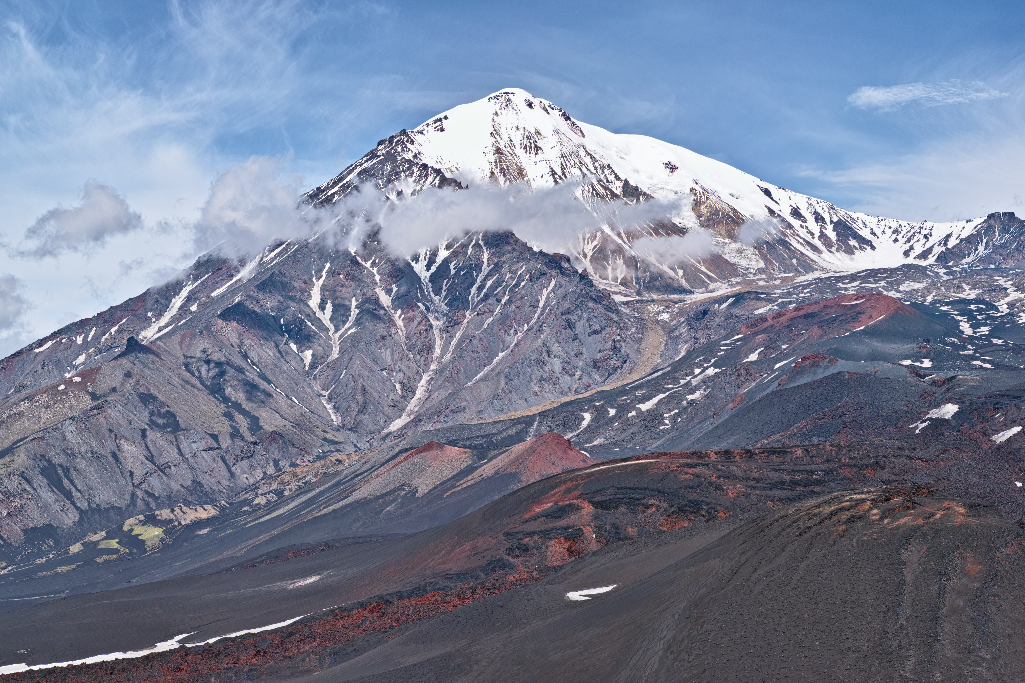 The Tolbachik volcano in Kamchatka from the south-southwest on July 26th, 2015 (cropped version).